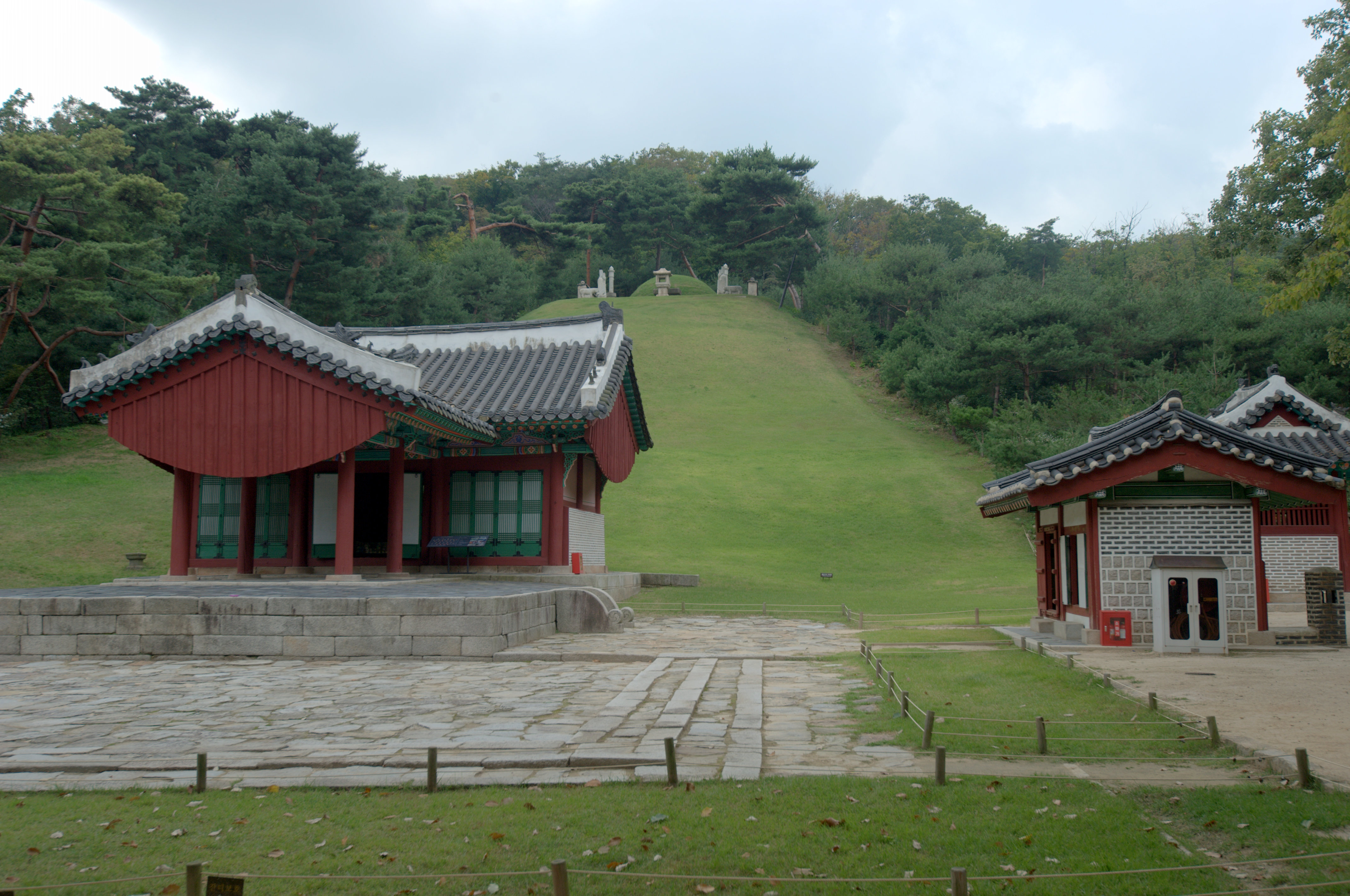 Jeongneung, one of The Royal Tombs of the Joseon Dynasty, located in Jeongneung-dong, Sungbuk-gu, Seoul, South Korea.